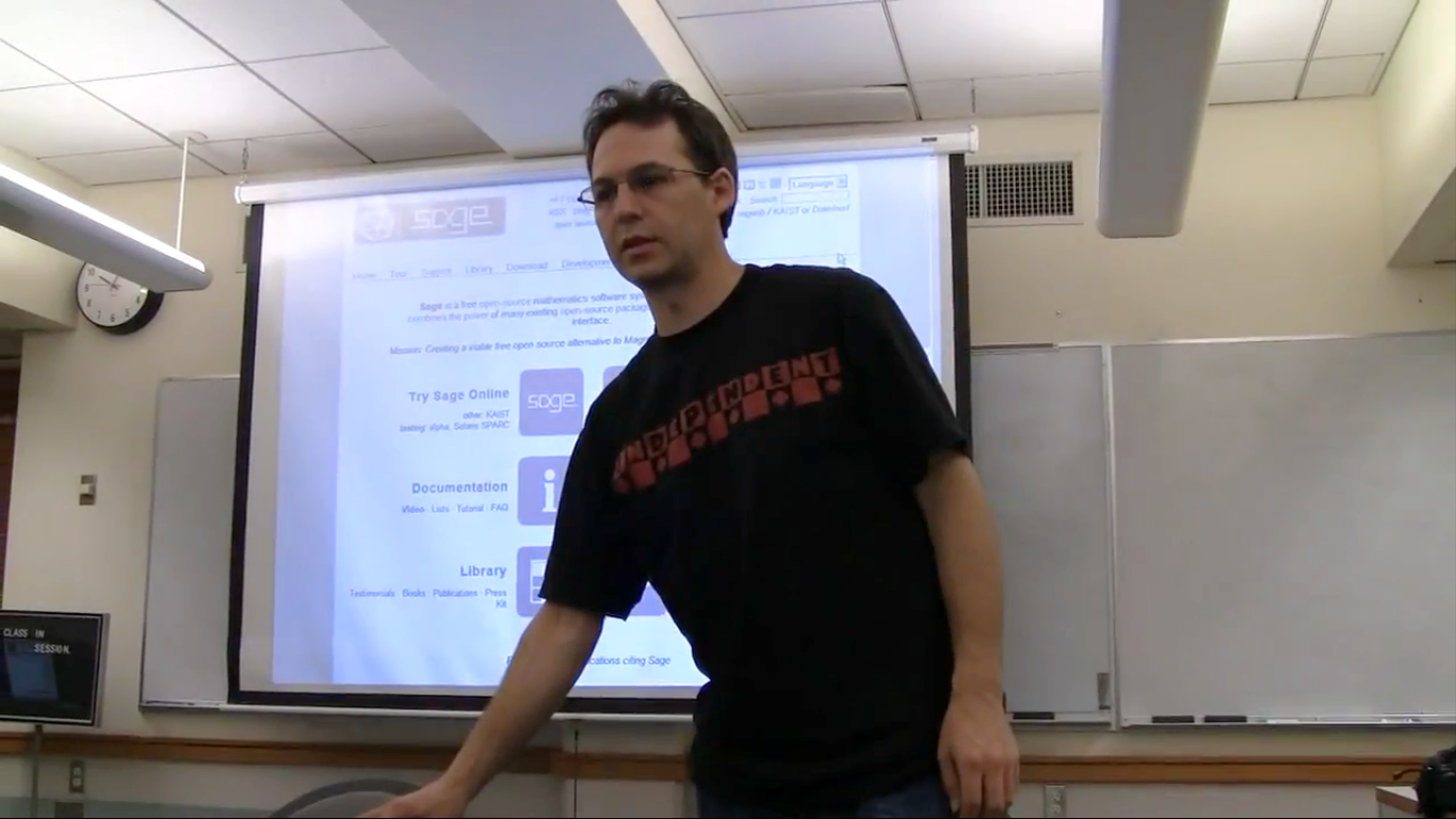 William A. Stein giving a talk about Sage at the 2011 Mathematics REU at the University of Washington, standing in front of a projection screen showing the Sage website